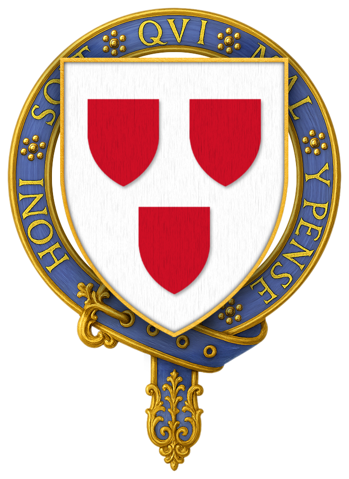 Coat of Arms of Sir Richard Fitz-Simon, KG “ Sir Richard Fitz Simon, one of the first founders… Arms: Argent, three inescocheons, two and one, Gules. ” BELTZ, George Frederick, Memorials of the Order of the Garter from Its Foundation to the Present Time, London: William Pickering, 1841.